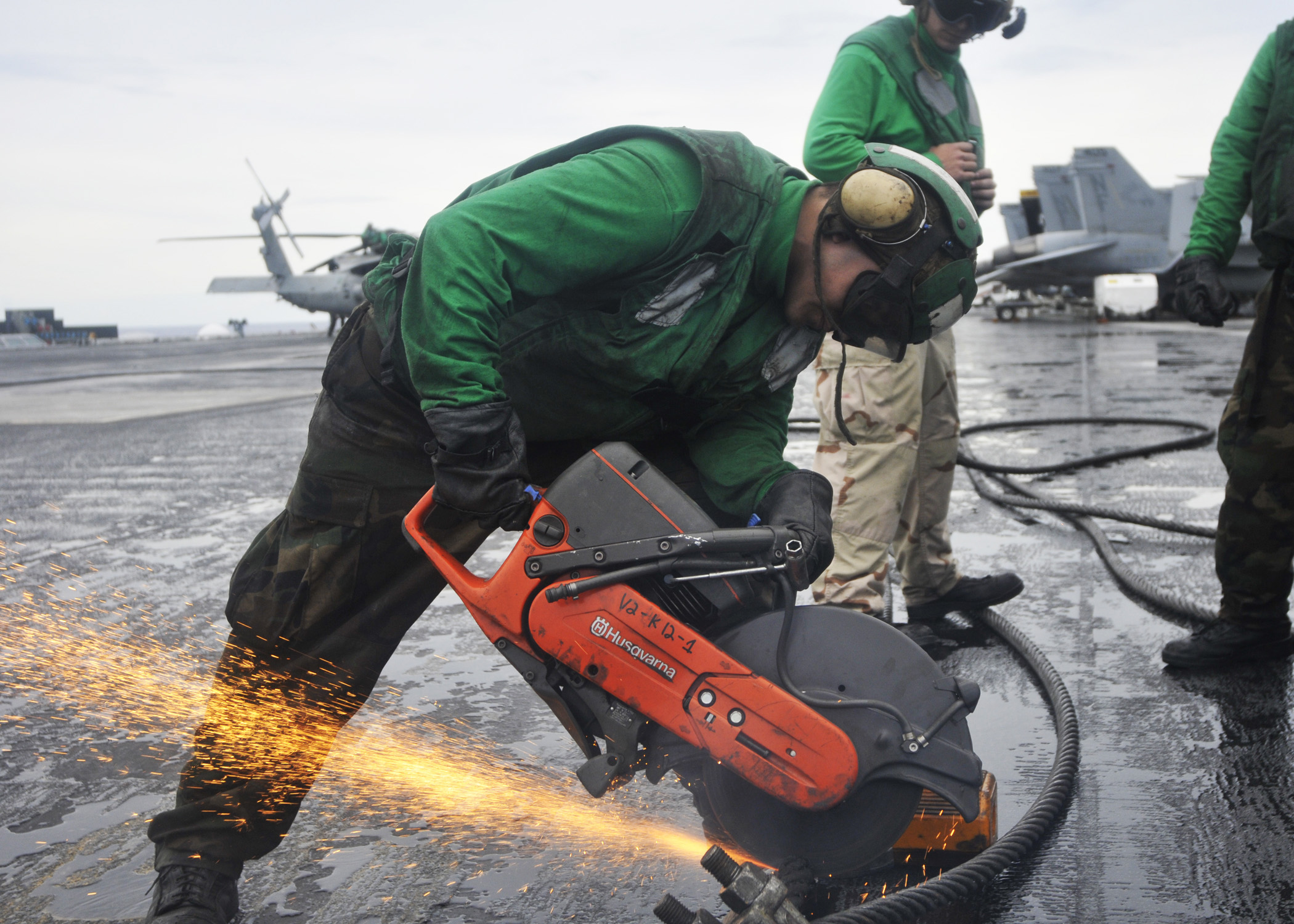 PACIFIC OCEAN (Sept. 22, 2010) Aviation Boatswain's Mate 3rd Class Max Torres, from Houston, uses a chop saw to cut through a worn arresting cable in preparation for the installation of a new one aboard the aircraft carrier USS George Washington (CVN 73). George Washington, the Navy's only permanently forward-deployed aircraft carrier is underway helping to ensure security and stability in the western Pacific Ocean. (U.S. Navy photo by Mass Communication Specialist 3rd Class David A. Cox/Released)